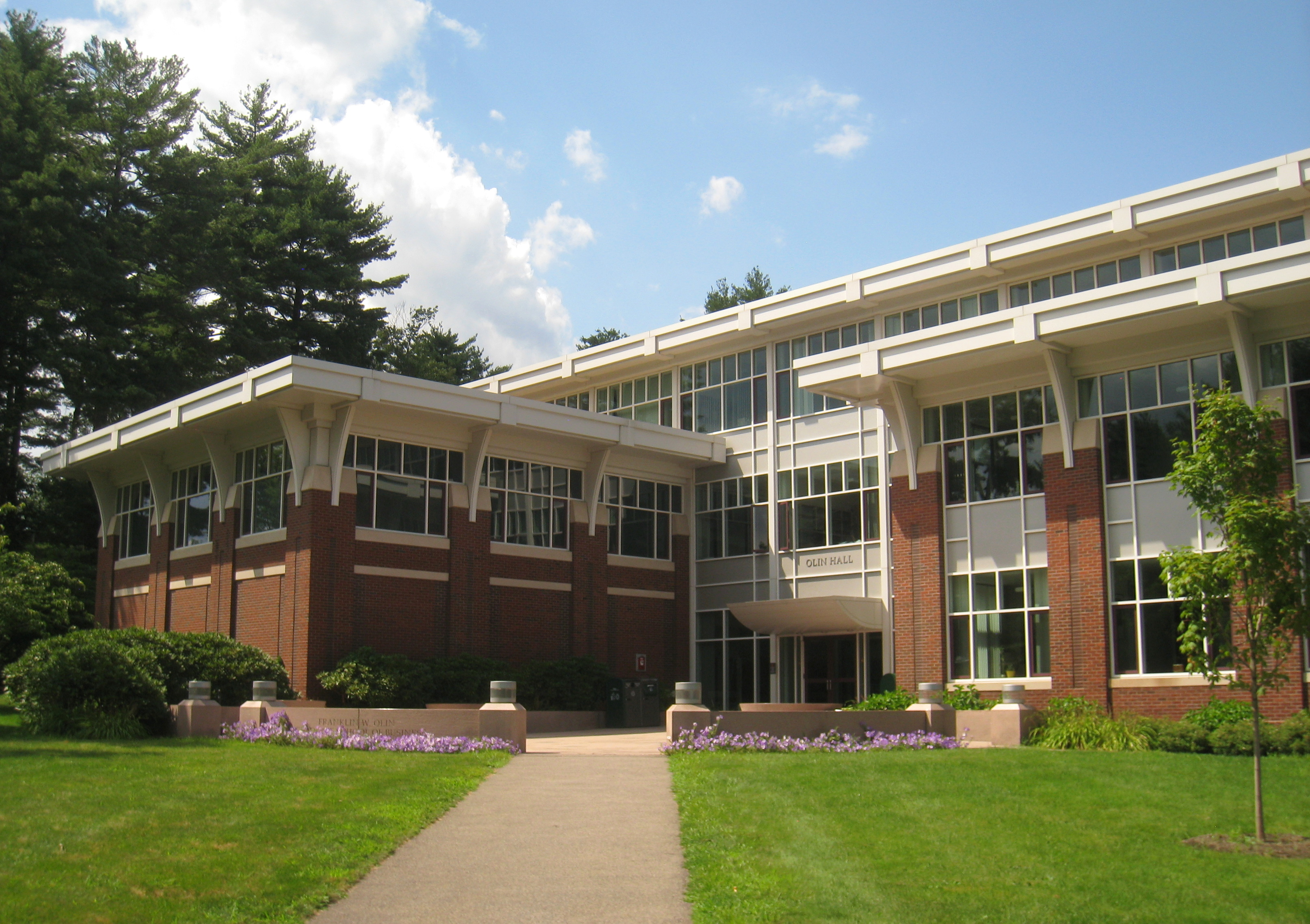 Olin Hall, Babson College, 231 Forest Street, Wellesley, Massachusetts, USA.